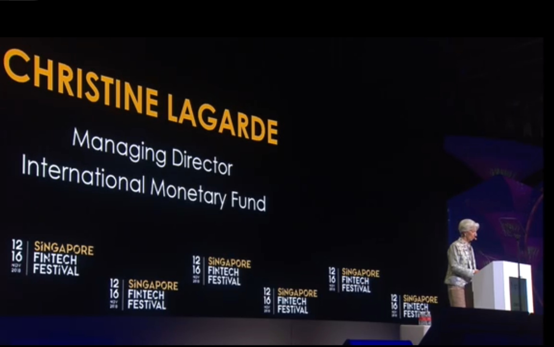 Christine Lagarde, Managing Director of the International Monetary Fund addressing at the Singapore FinTech Festival 2017.